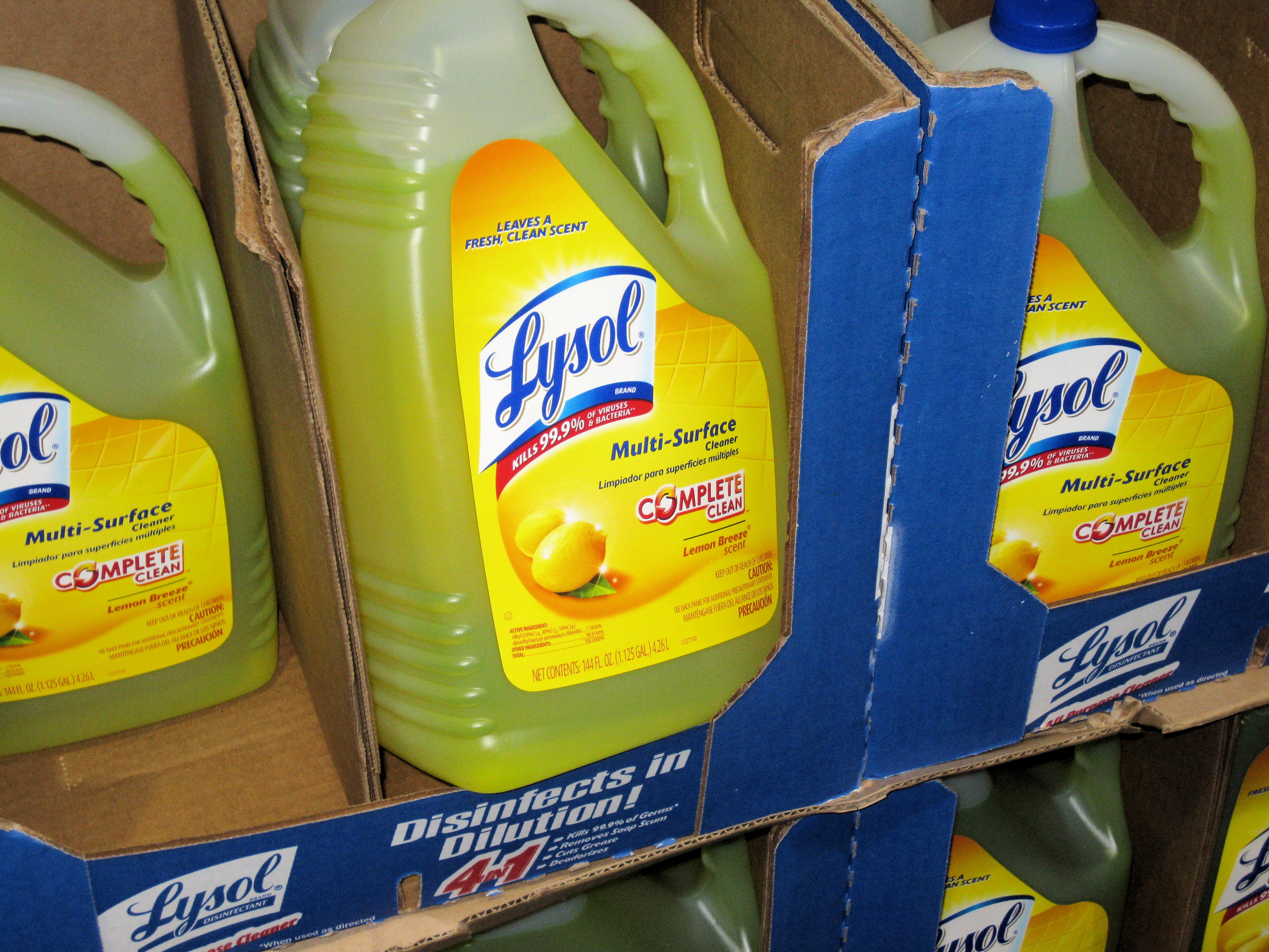 Lysol products on a Costco store shelf.